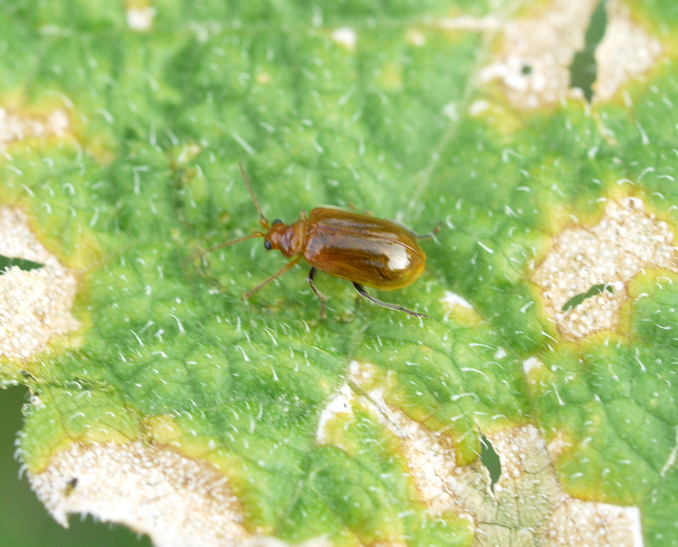 Aulacophora femoralis(Chrysomelidae)